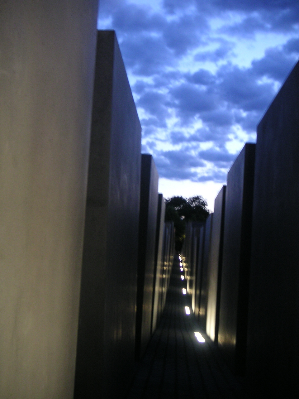 Memorial to the Murdered Jews of Europe (Berlin, Germany)